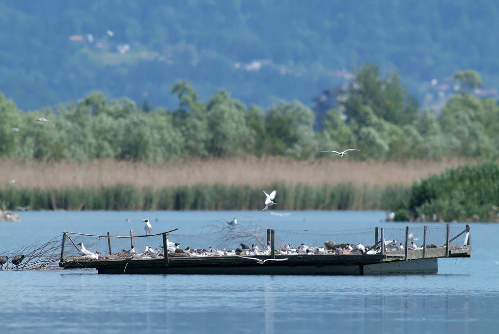 Nesting aid for Common Terns at Rheindelta This media shows the nature reserve in Vorarlberg with the ID 8047.